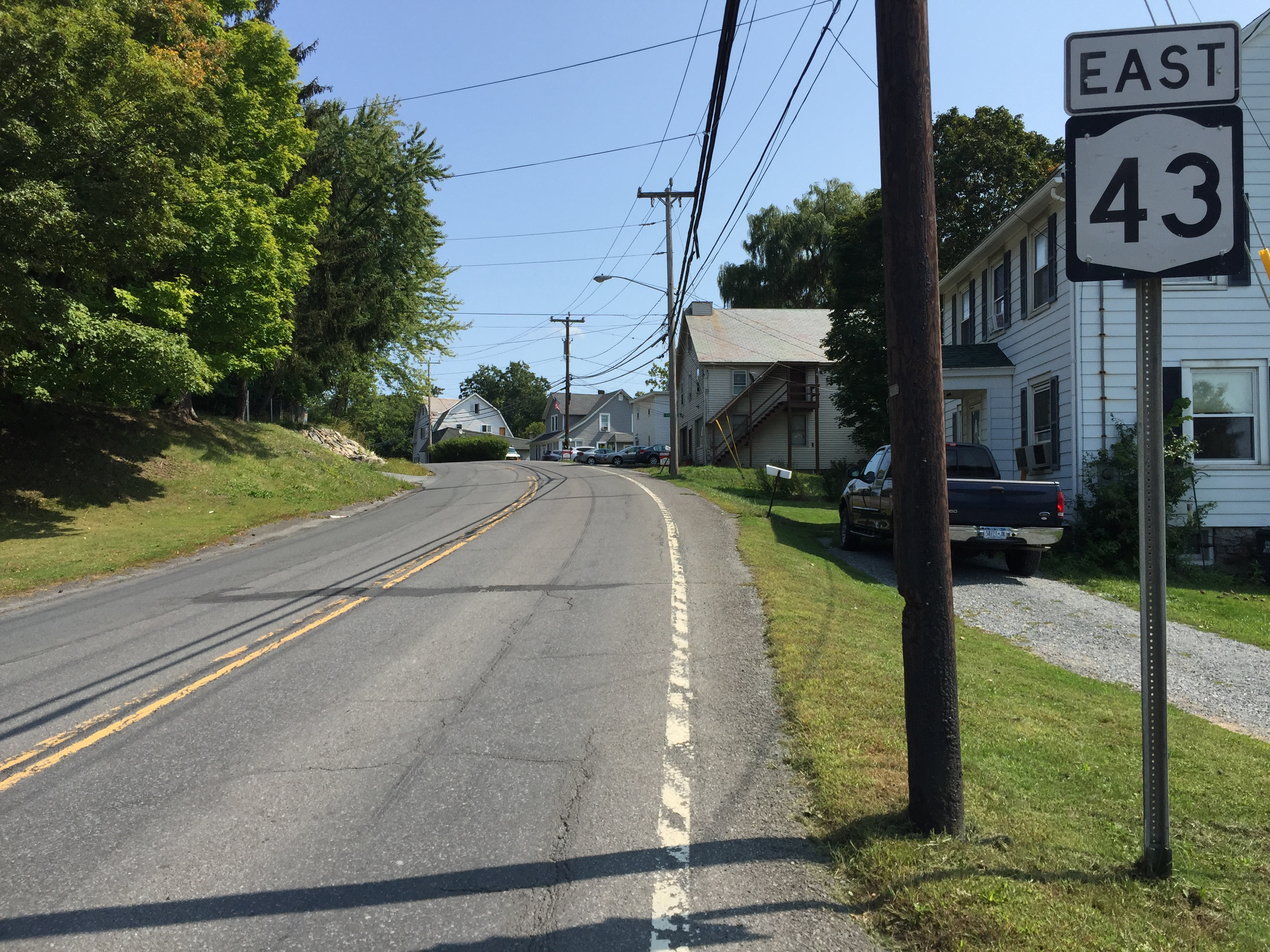 View east along New York State Route 43 (West Sand Lake Road) between Barzen Road and Buy Way in the Averill Park section of Sand Lake, Rensselaer County, New York